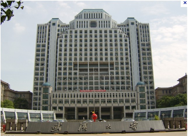 Wuhan University